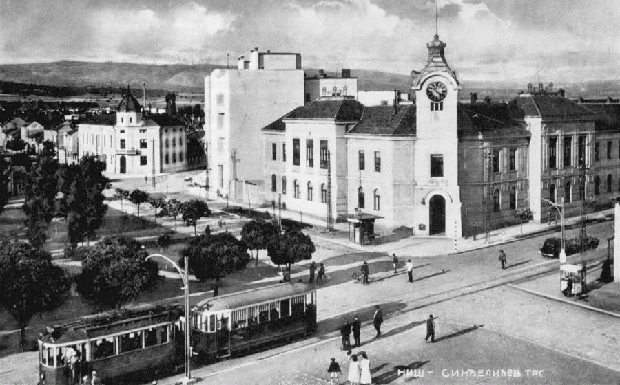 This is a photo of the Nis Tram from 1930. It is in the public domain. You can find it in this report about Trams in Nis, as well as many more such photos.